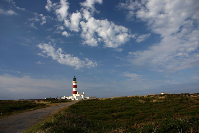 Point of Ayre Lighthouse